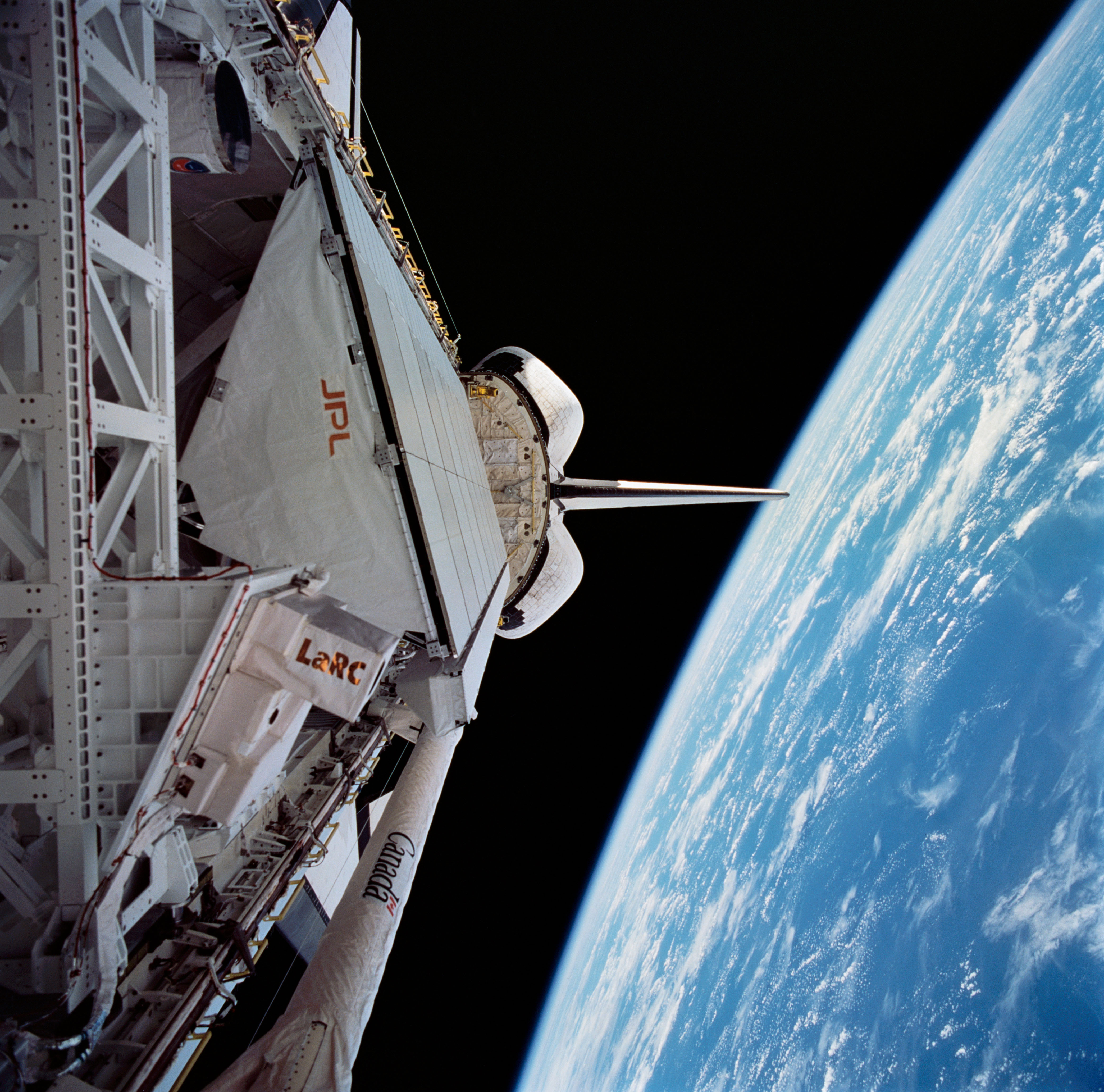 View of Endeavour's payload bay during STS-59.